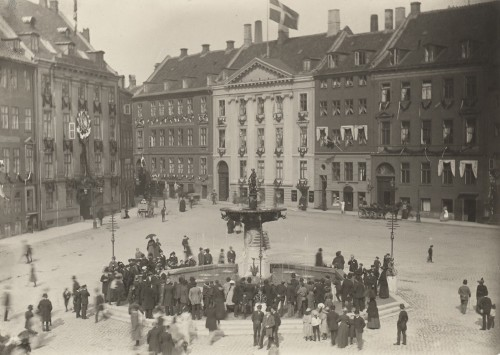 Christian IX and queen Louise's gold wedding celebrated at Gemmeltorv in Copenhagen, Denmark